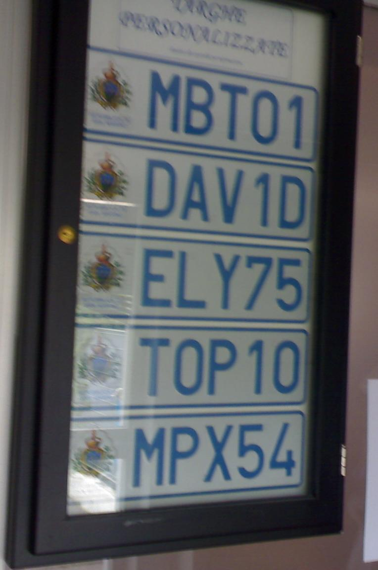 San Marino's personalized plates